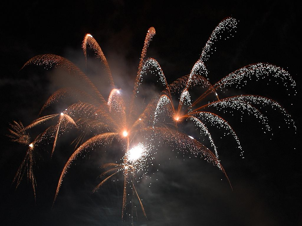 New years 2002 at Seaport Village. Camera: Canon D60 Keywords: fireworks License: This image is public domain. You may use this image for any purpose, including commercial.